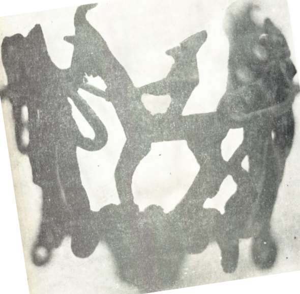 Insignia of the chiefs of the khevi of Karchokhi according to Vladimer Ghunashvili.